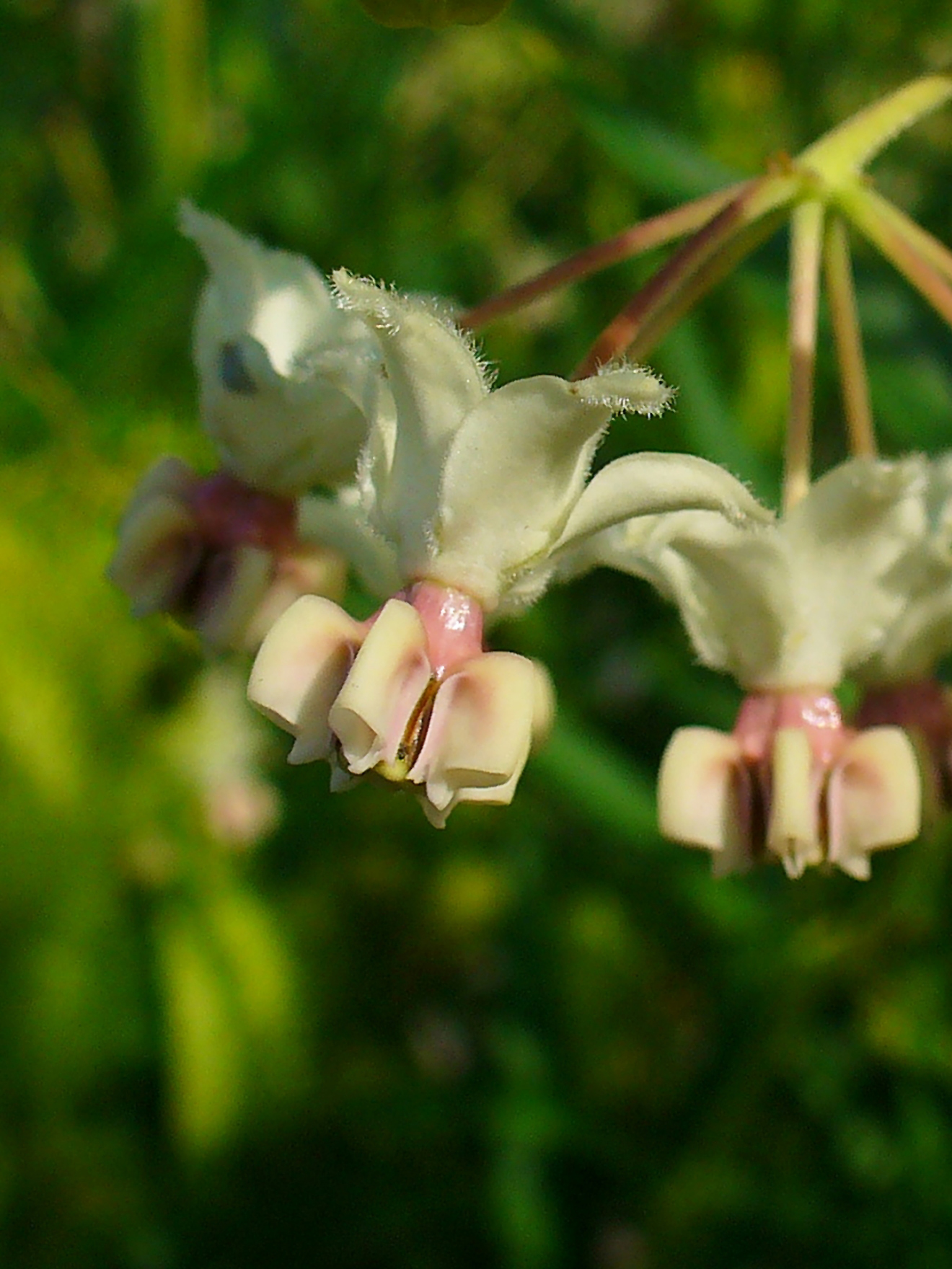 Gomphocarpus fruticosus, Apocyanaceae, Balloon Cotton, Cape Cotton, Duckbush, flower; Botanical Garden KIT, Karlsruhe, Germany.